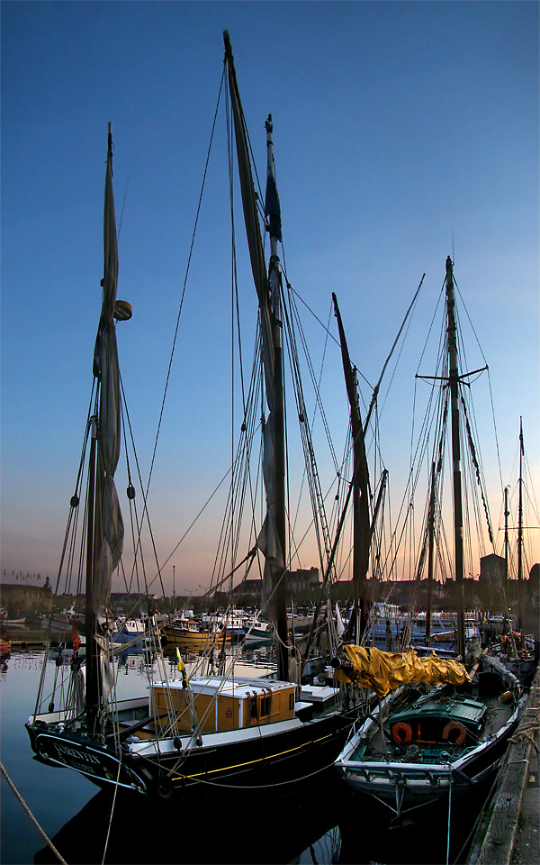 Concarneau, Finistère, Bretagne, France. The harbour at dusk.